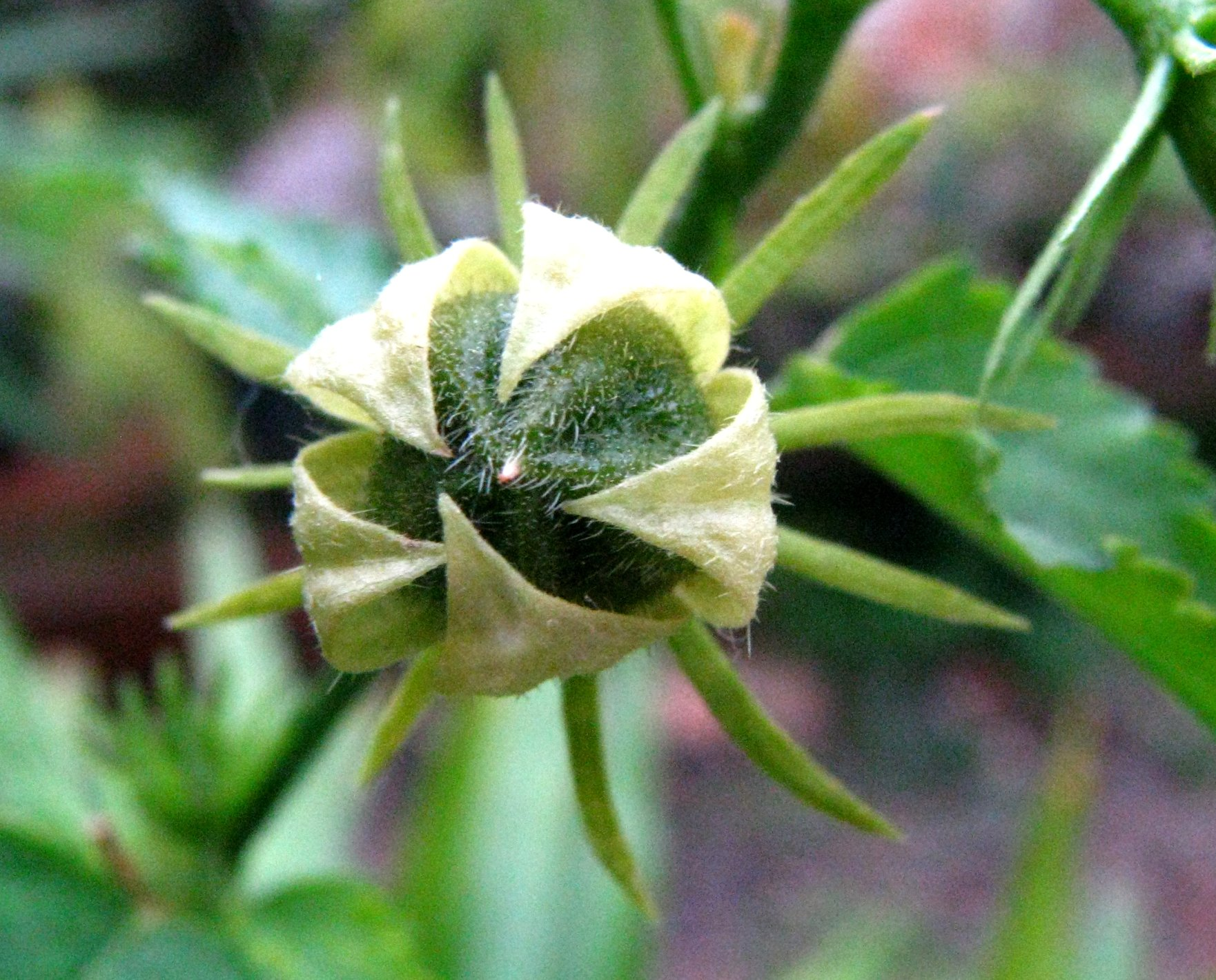 Dwarf hibiscus or Brazilian rosemallow Malvaceae Native to The Caribbean, Central America to northern South America Oʻahu, (Cultivated)